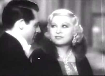 Cropped screenshot of Mae West from the trailer for the film I'm No Angel